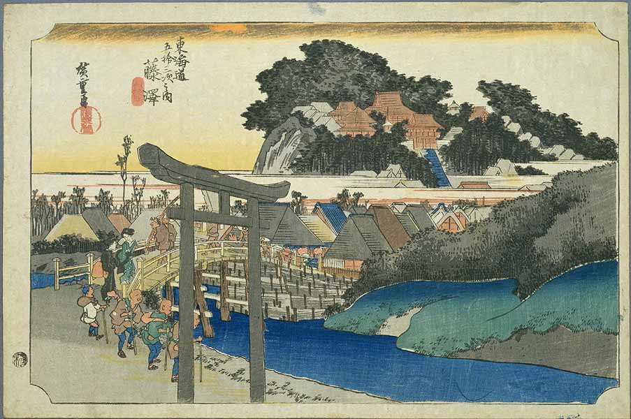 Fujisawa on the Tokaido, ukiyo-e prints by Hiroshige